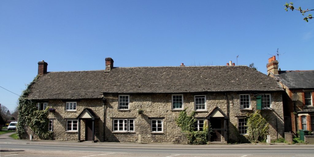 Front of the King's Arms, Gosford, Oxfordshire, seen from the southeast